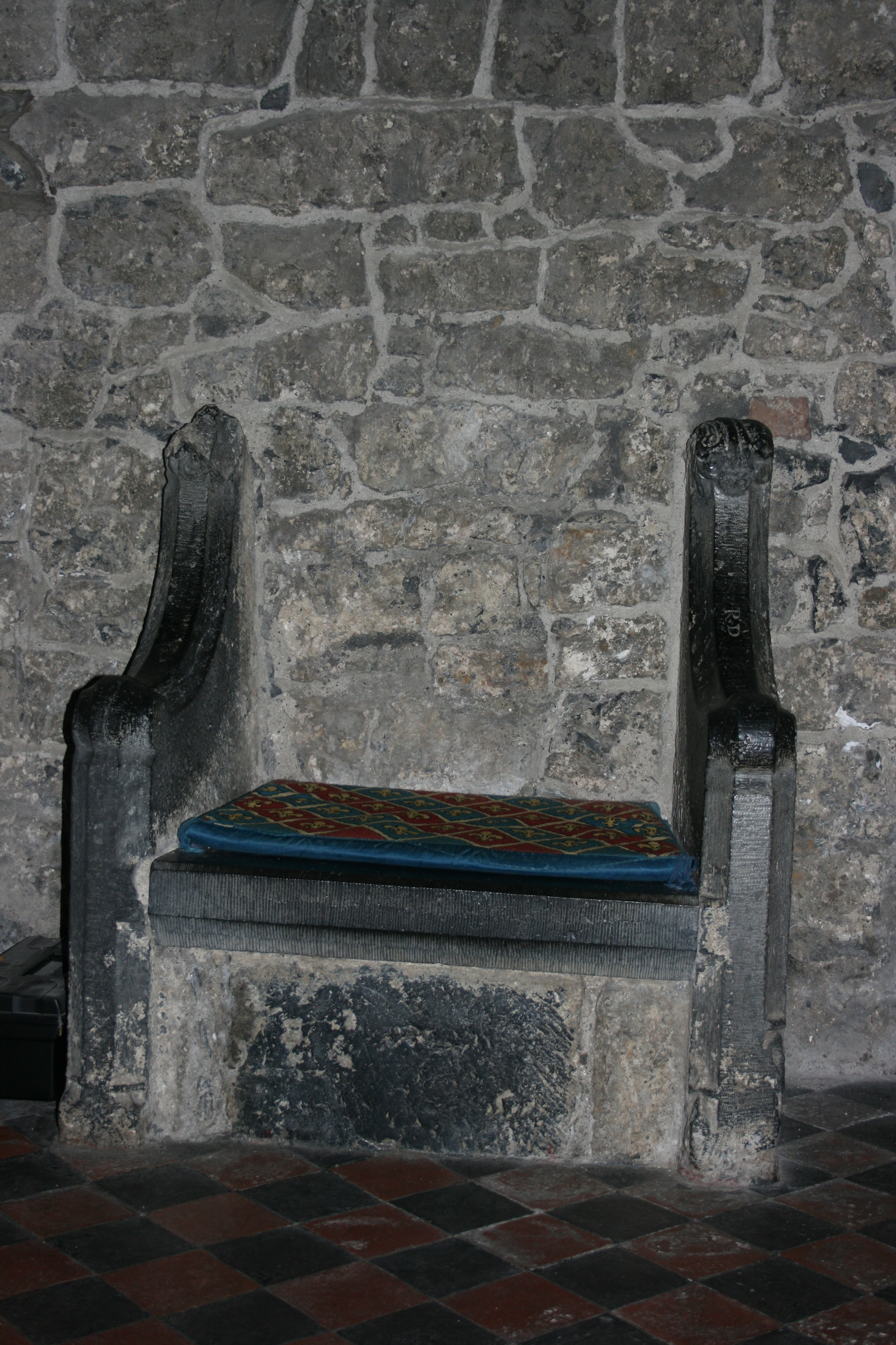 st. Kieran' chair St. Canice's Cathedral Kilkenny Ireland